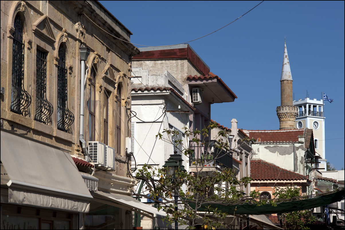 Komotini (Gümülcine), Greece. Old city and the Muslim mosque "Yeni Cami" / the clock-tower.